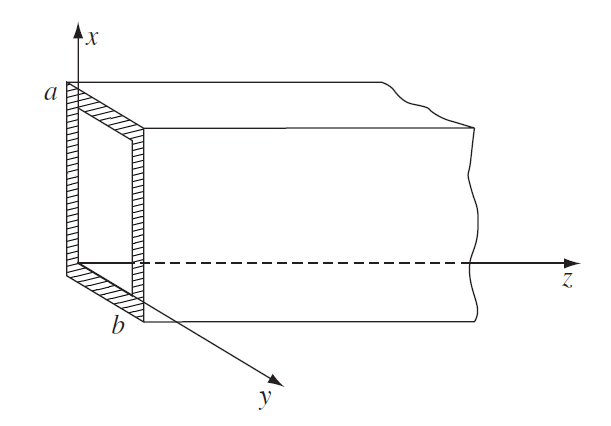 termpapaper9